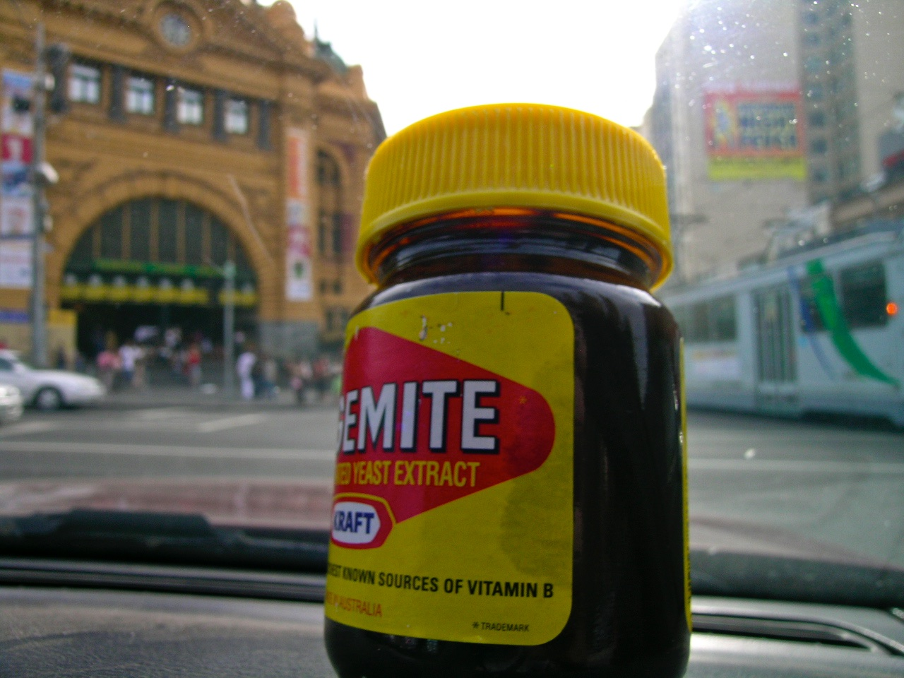 Vegemite and Flinders Street Station.